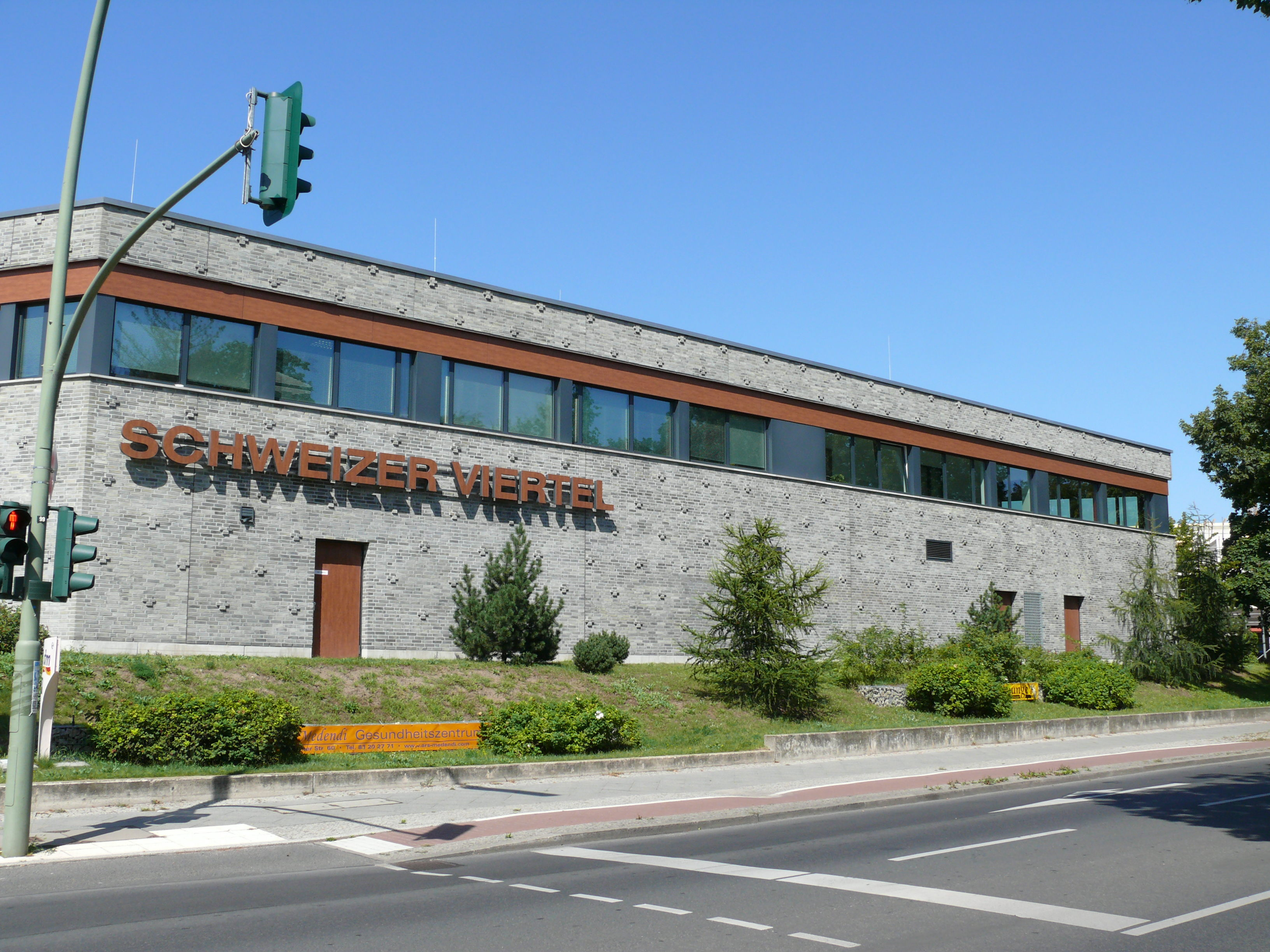 Berlin-Lichterfelde Goerzallee